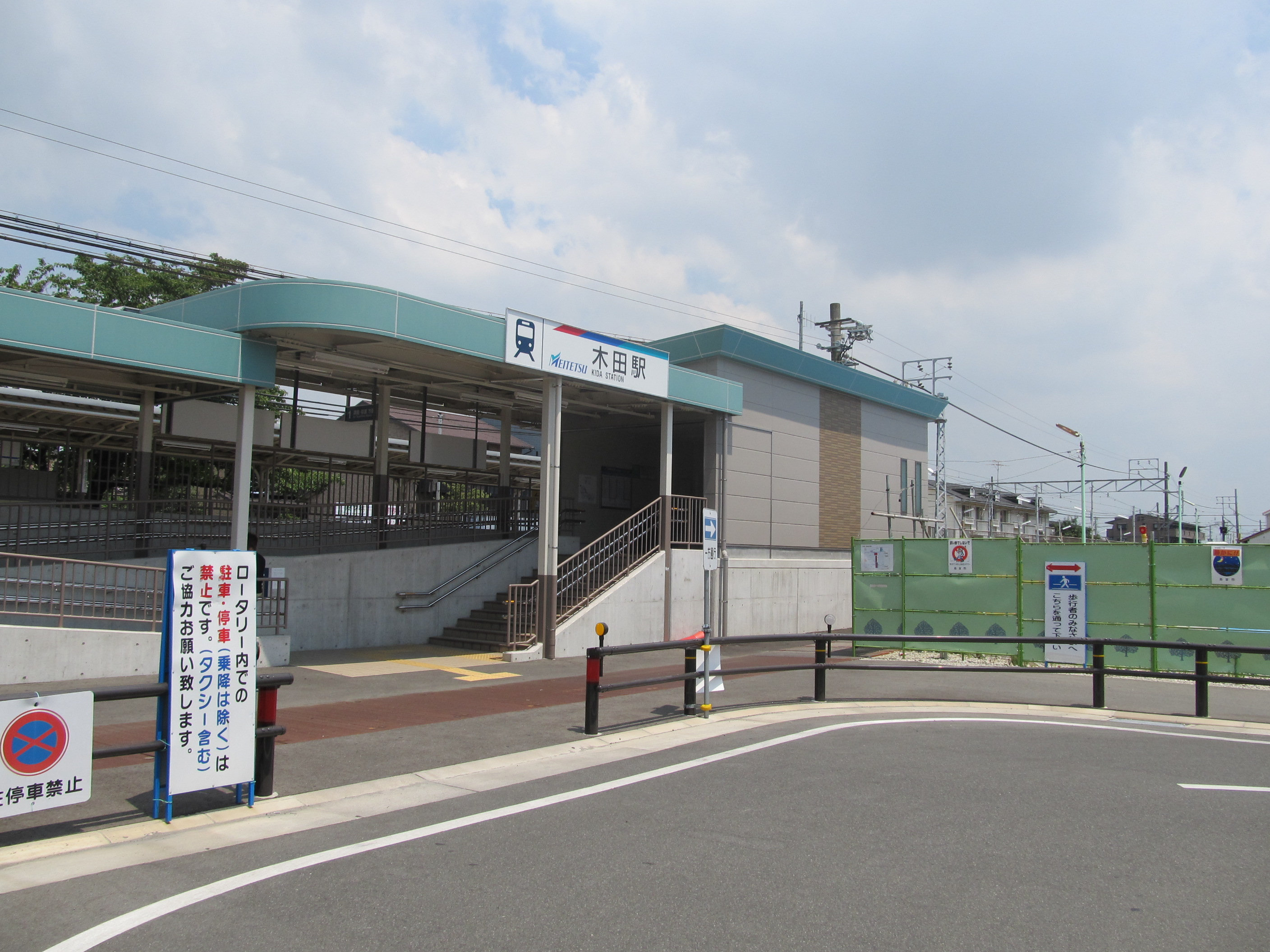 Nagoya Railroad Tsushima Line Kida Station South Gate